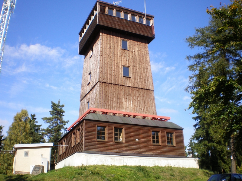 Observation tower Kapellenberg near Schönberg and Bad Brambach (Vogtland, Saxony, Germany)